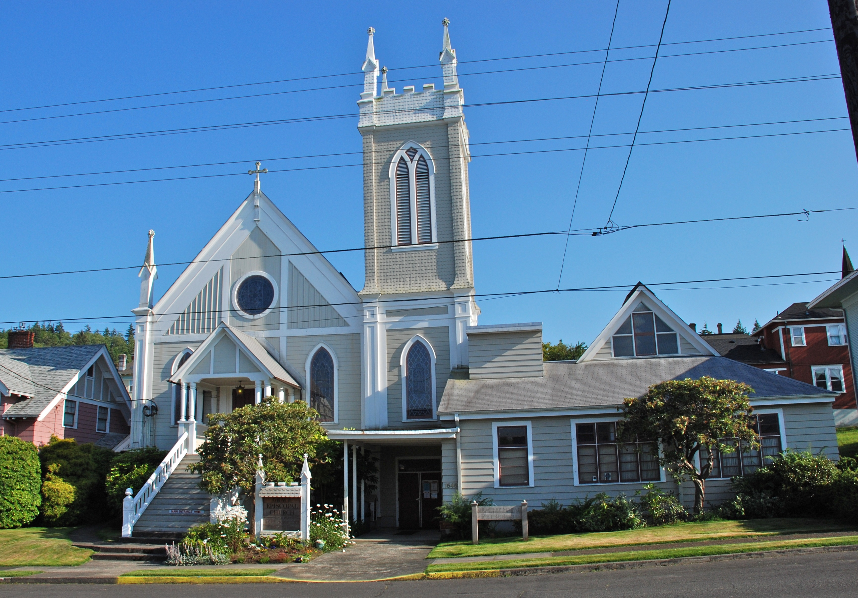 The Grace Episcopal Church and Rectory (built in 1886), at 1545 Franklin Avenue in Astoria, Oregon, is listed on the U.S. National Register of Historic Places.